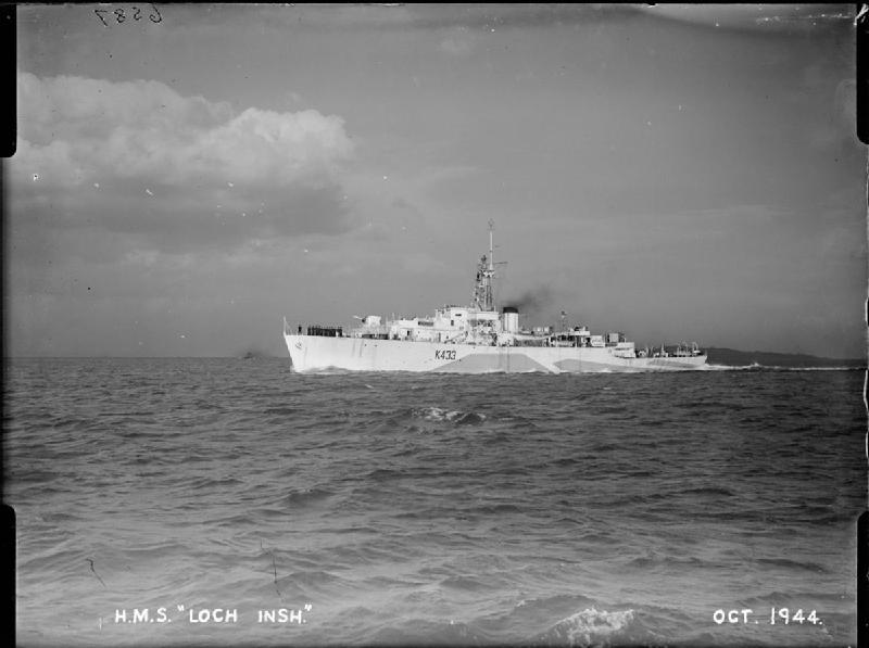 Photograph of British frigate HMS Loch Insh.